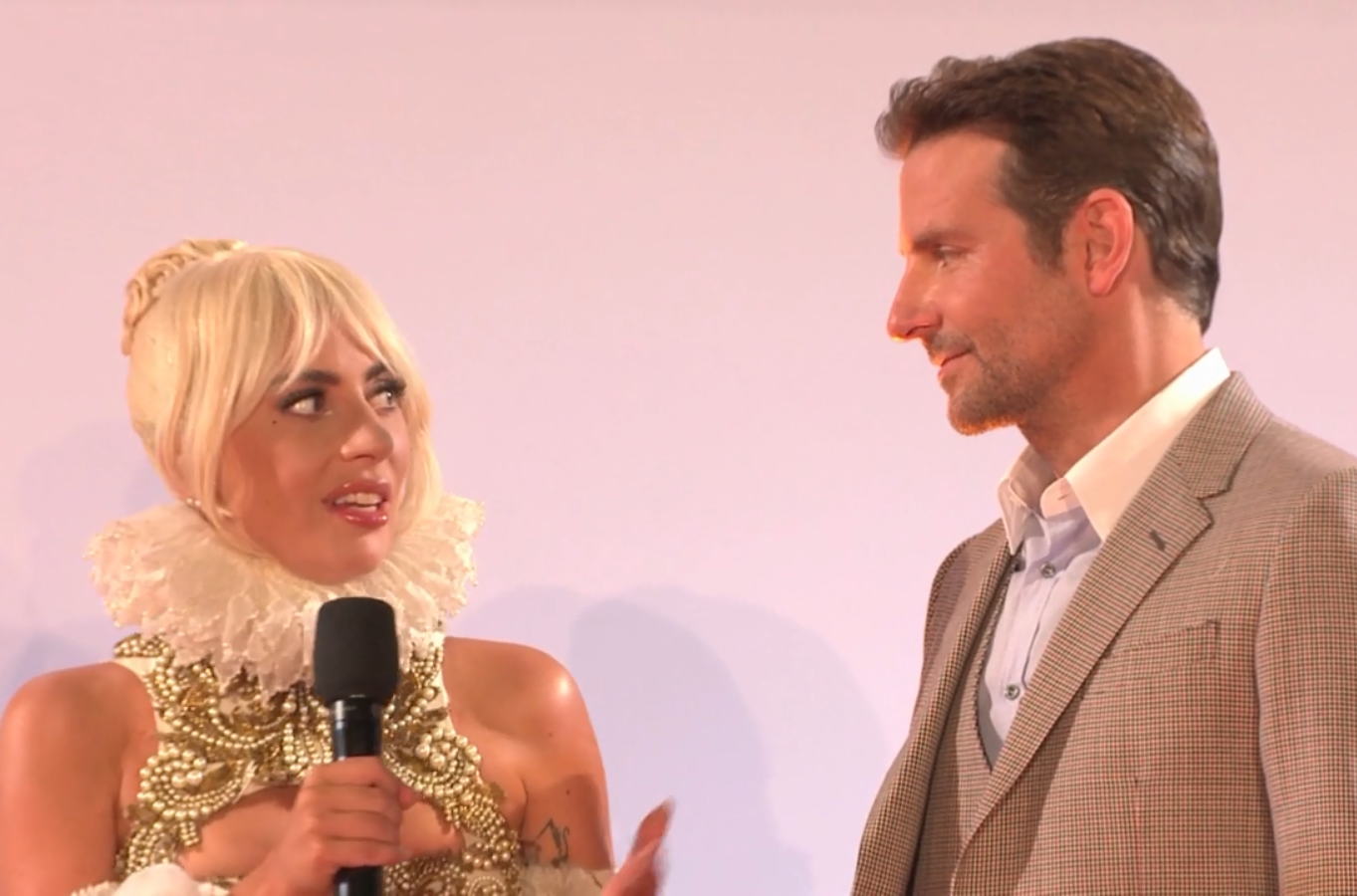 Lady Gaga and Bradley Cooper at A Star is Born premiere in London